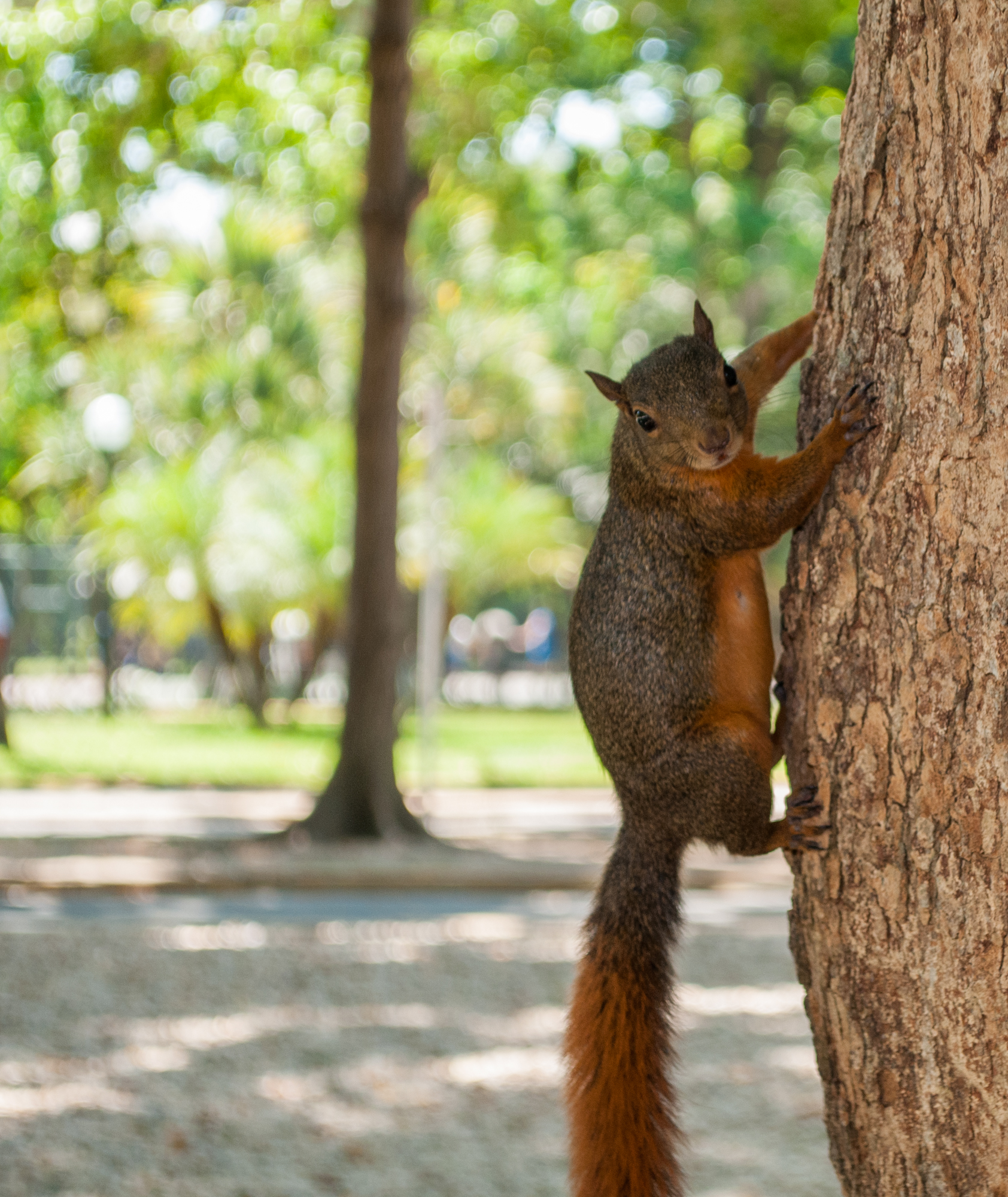 Sciurus granatensis Humboldt 1811; Familia Sciuridae in Negra Hipolita Park in Valencia - Venezuela